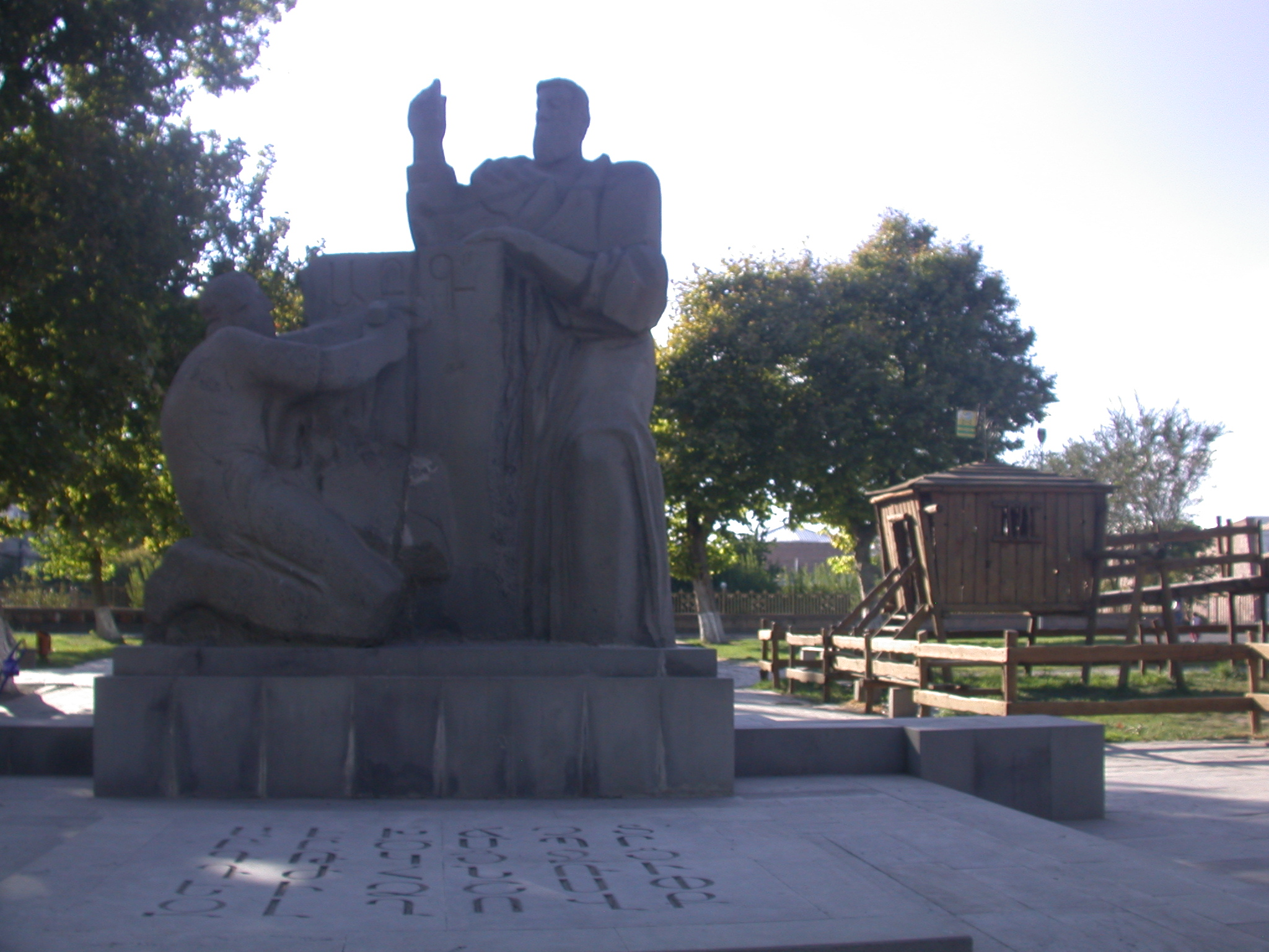 The statue of Mesrop Mashtotc 2/24